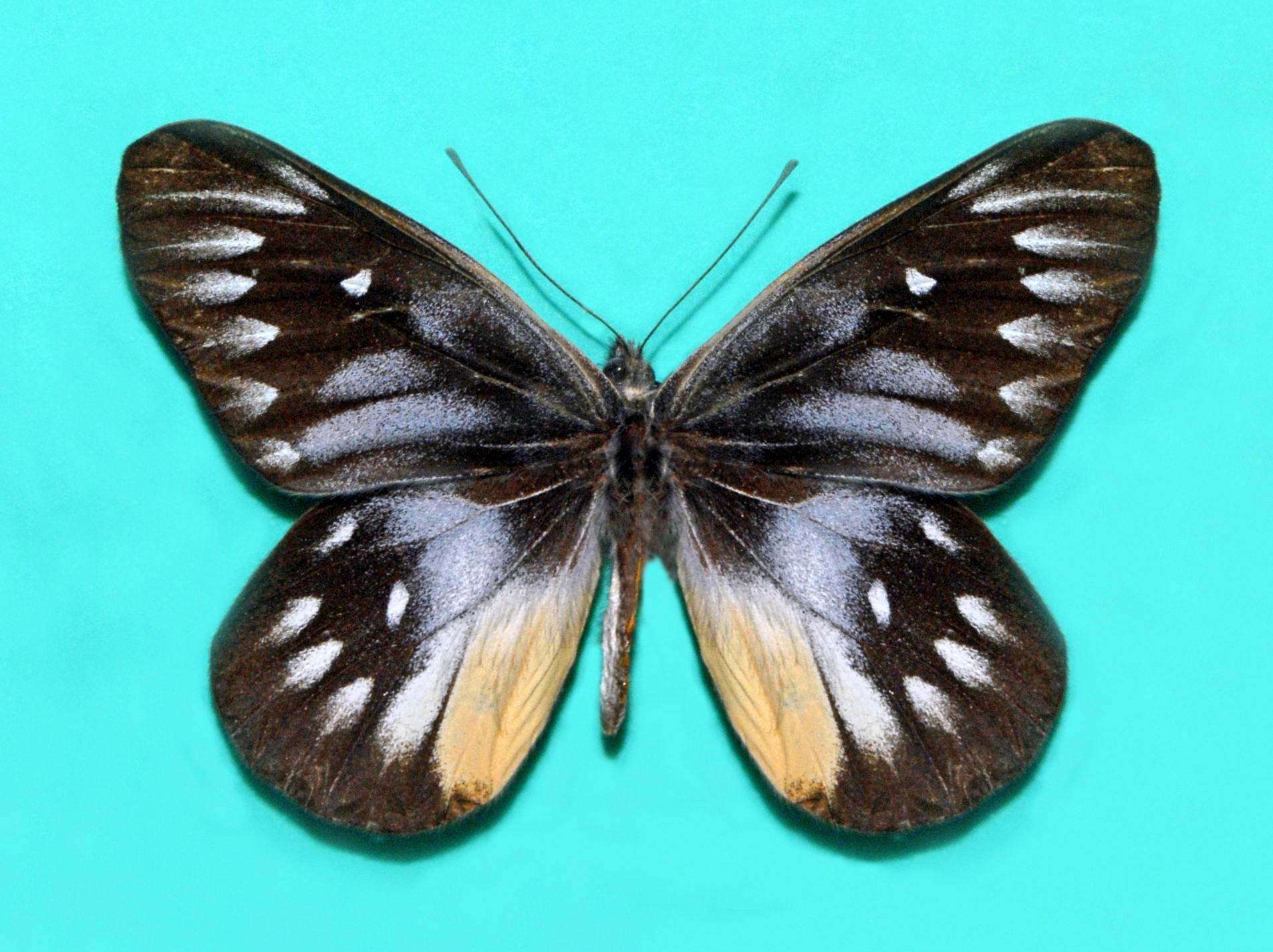 Upperside of Delias pasithoe. Mounted specimen on display at the Museo Civico di Storia Naturale di Milano